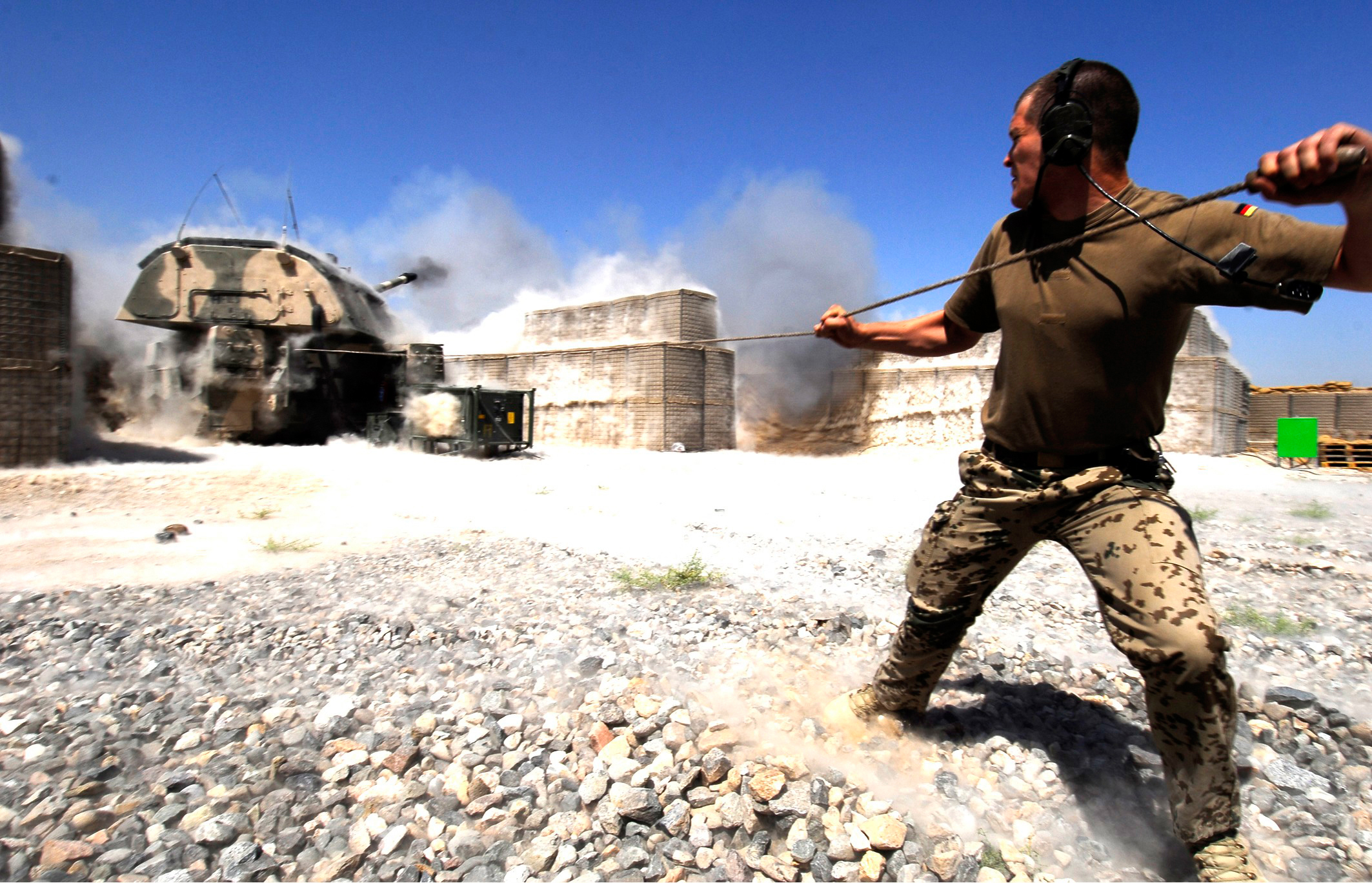 The artillery pieces of the Provincial Reconstruction Team (PRT) KUNDUZ shooting.